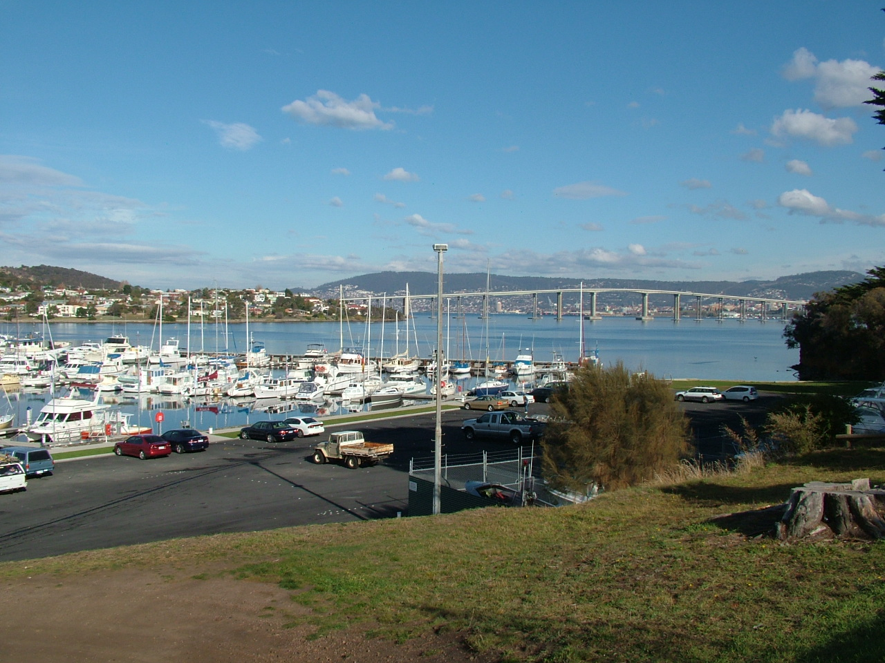 A photo of Lindisfarne bay, Tasmania, looking over the Lindisfarne Motor Yacht Club to the Derwent River and the Tasman Bridge. Taken by Phil Wardle, 2005. Fujifilm S7000 digital camera. Released to the public domain.